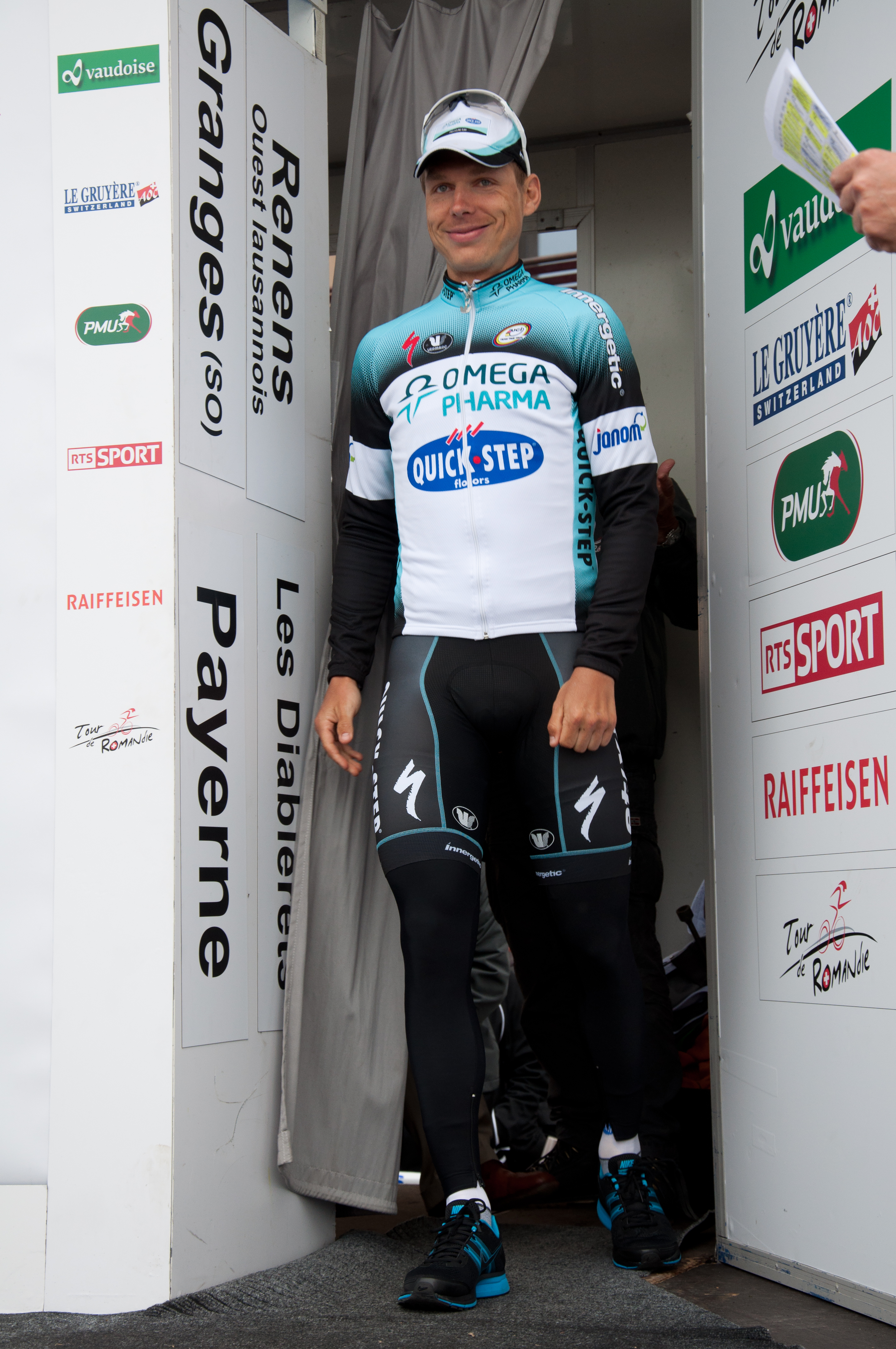 Podium ceremony of Tour de Romandie 2013's stage 5, in Geneva, Switzerland. Tony Martin entering on the stage.